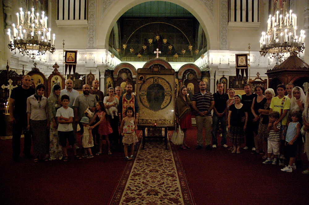 A copy of the medieval Georgian Ancha Icon at the Eastern Orthodox Church of Cannes on 4 August 2010.